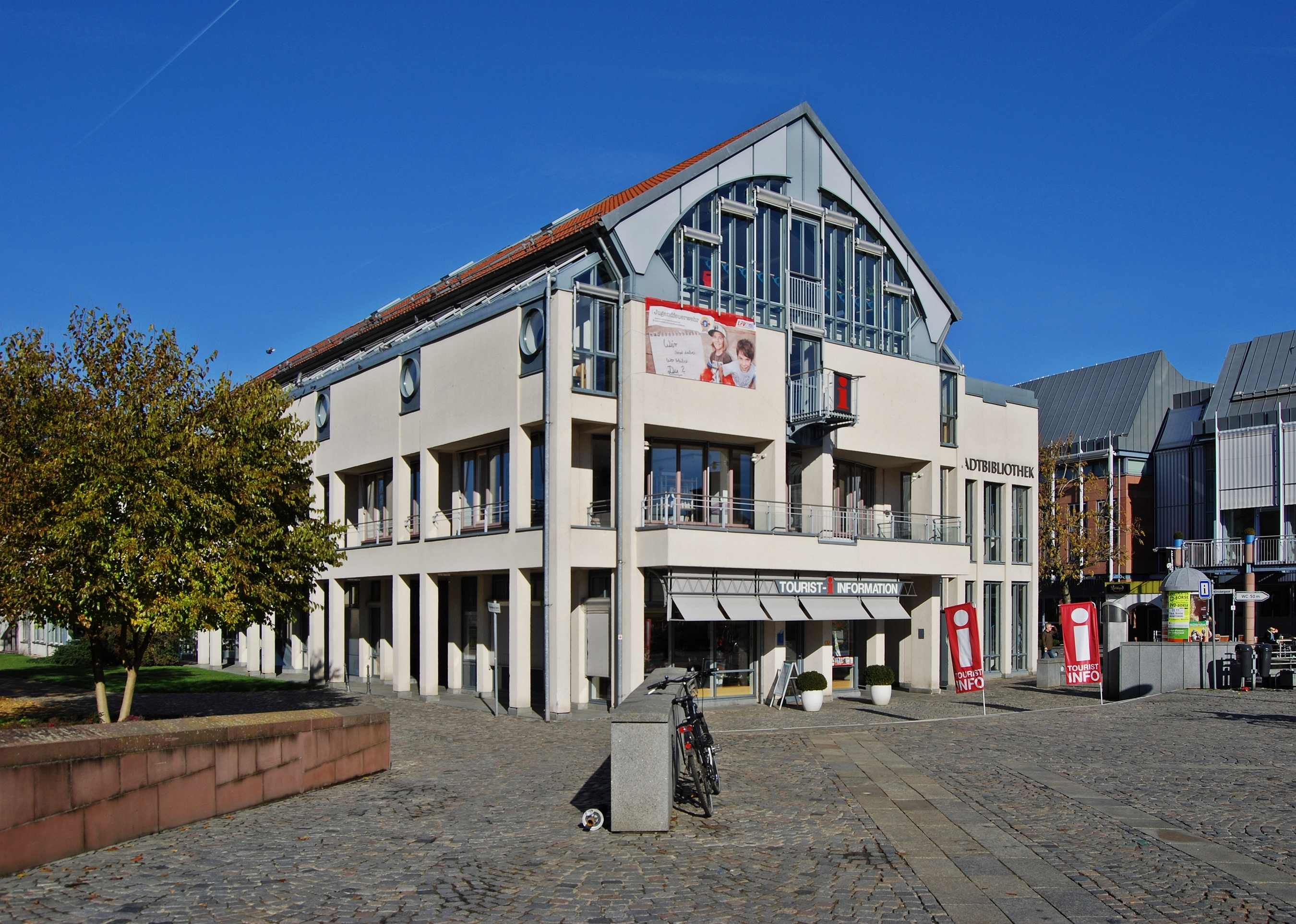 The building of the municipal library of Aschaffenburg, Lower Franconia.